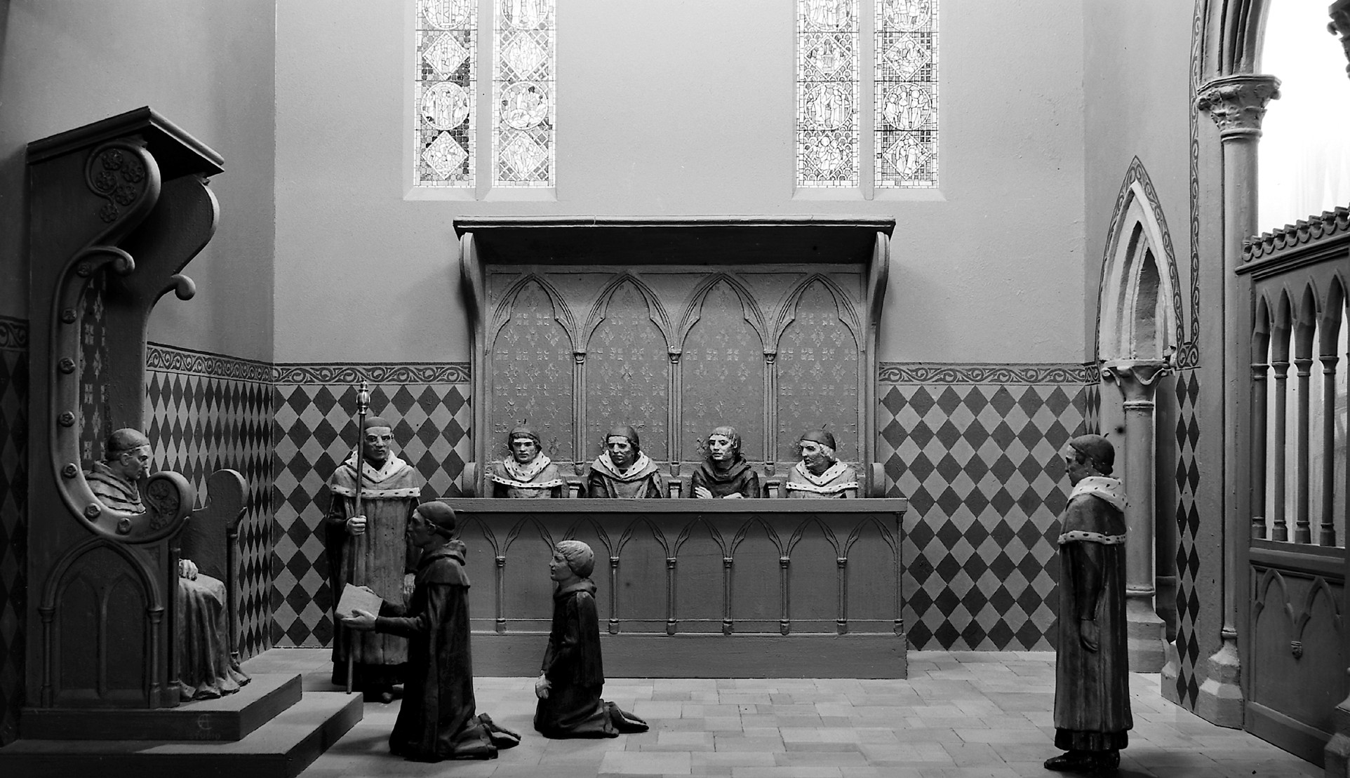 Roger Bacon presenting one of his scientific works to the chancellor of Paris University. Diorama by Ashenden. Wellcome Images Keywords: Ashenden; Roger Bacon